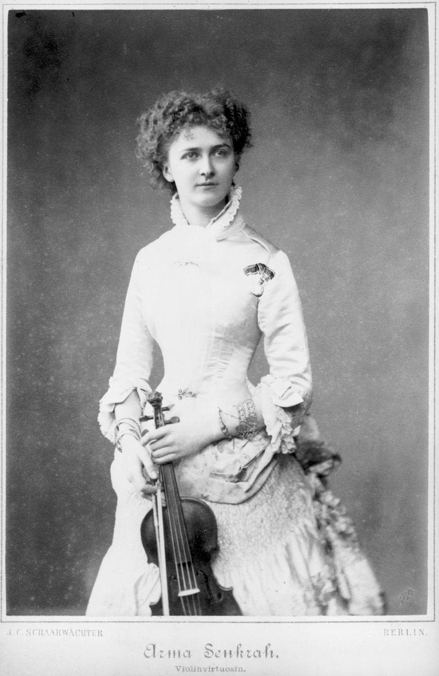 German-American violinist Arma Senkrah (1864-1900)